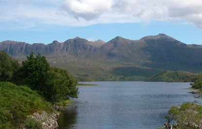 Taken by Alan Partridge. Sourced from